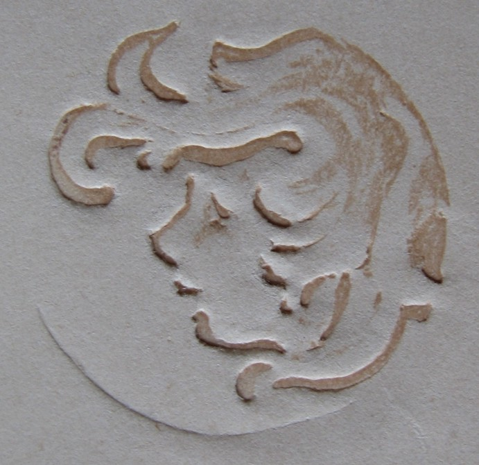 Blindstamp or embossed device of L'Estampe Moderne, issued in 24 monthly parts